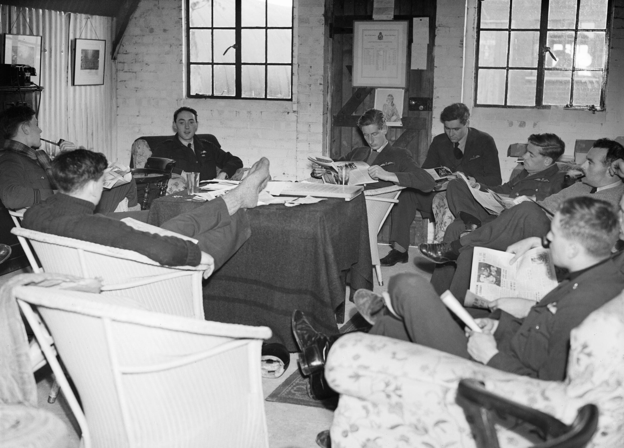 Pilots of No. 19 Squadron RAF relax in the crew room at Fowlmere, the satellite airfield to Duxford in Cambridgeshire, September 1940. Squadron Leader B J E 'Sandy' Lane, the Commanding Officer of No. 19 Squadron RAF (facing camera), relaxes with some of his pilots in the Squadron crew room at Manor Farm, Fowlmere, Cambridgeshire.